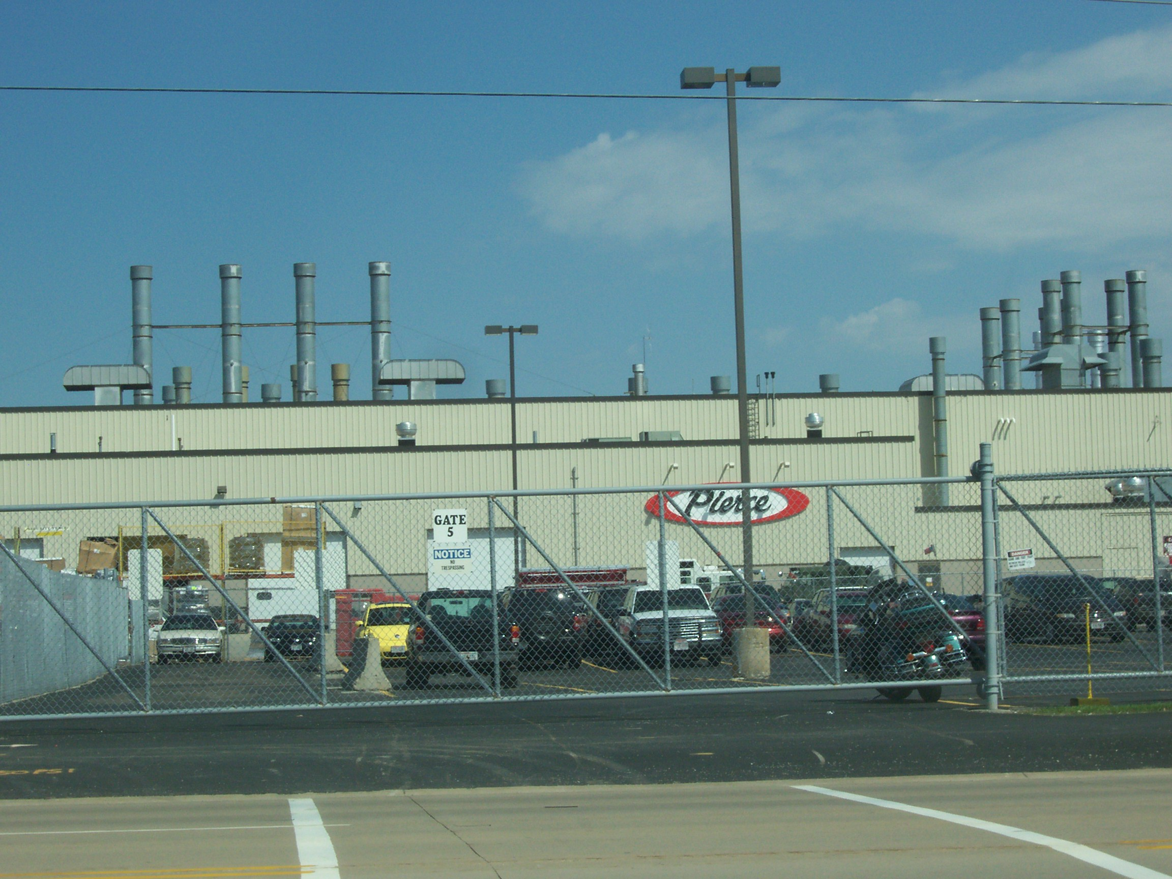 Looking at the Pierce Manufacturing headquarters in Appleton, USA.